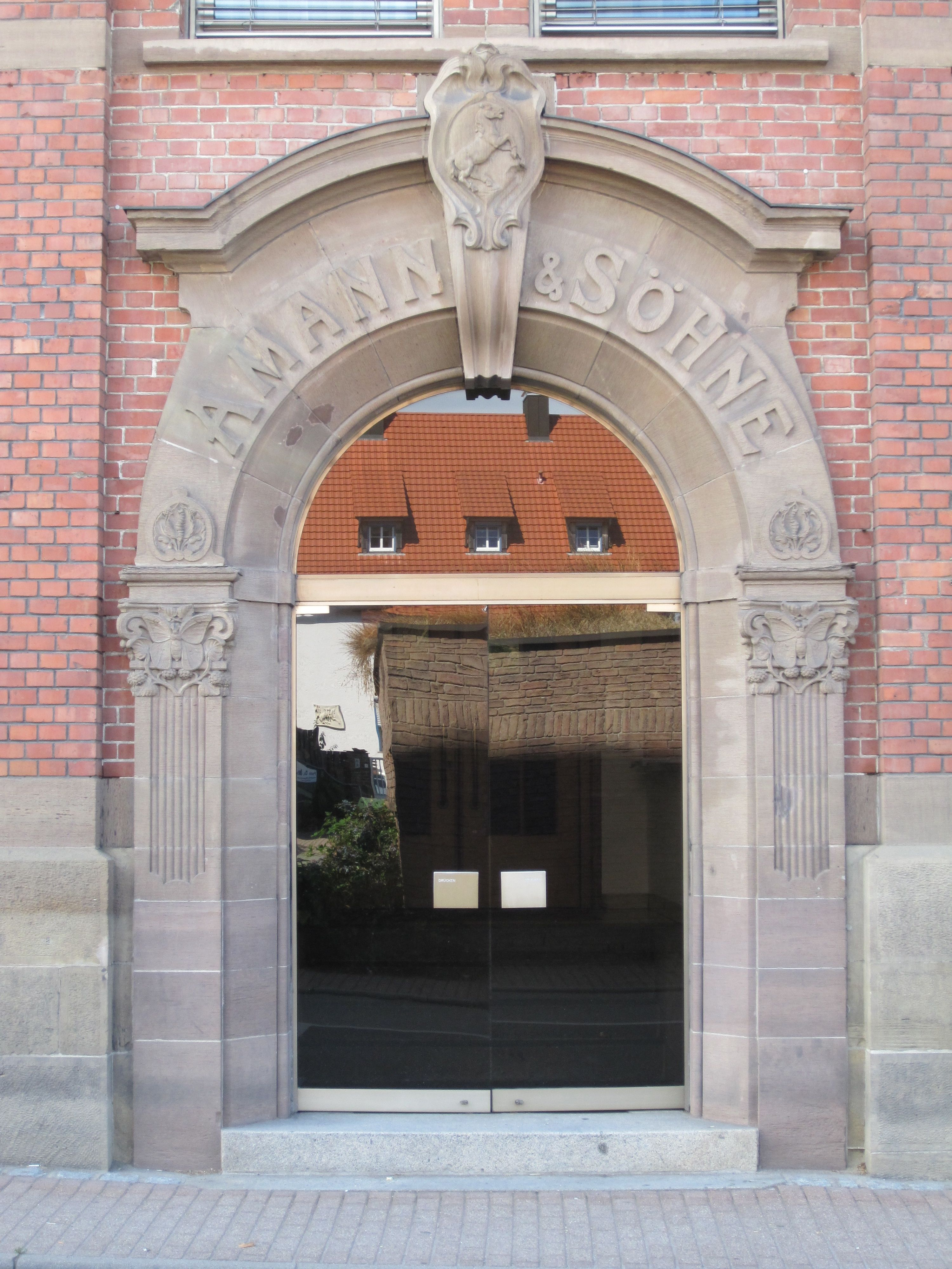 Entrance to head office of Amann works in Bönnigheim, Germany